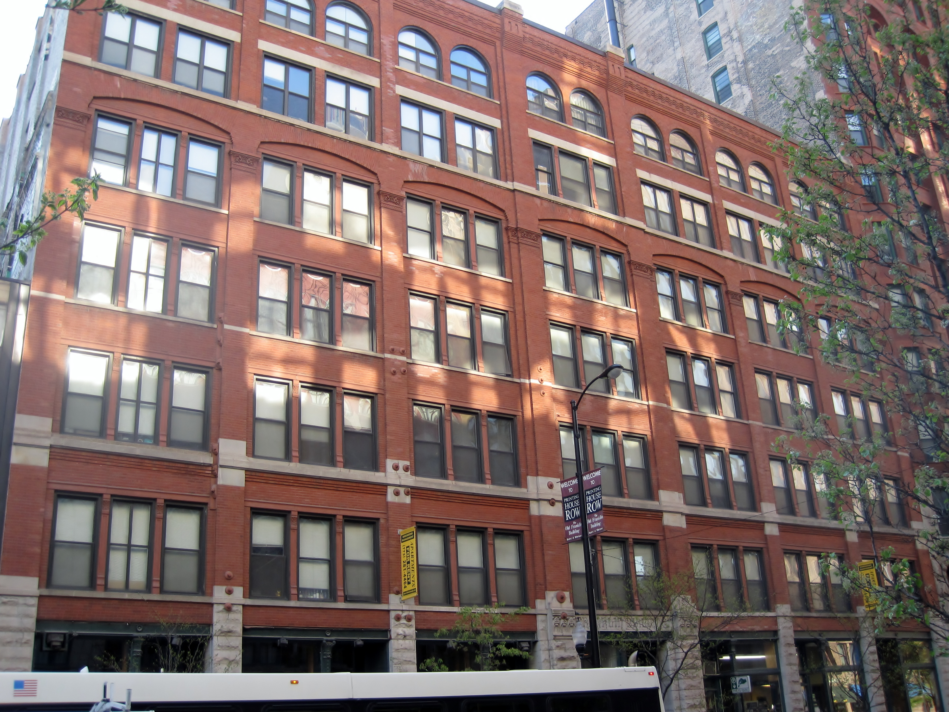 The Franklin Building in the South Loop Printing House District of Chicago (1912). It was designed by George C. Nimmons, who formerly worked with Burnham & Root.